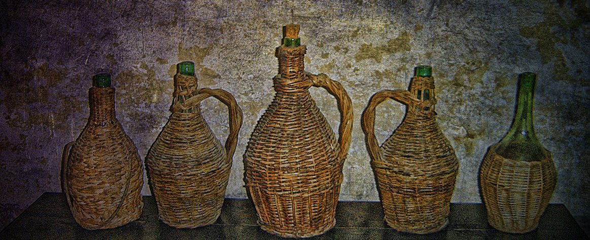 Old fiascos kept in the historical kitchen of the castle of Dozza (BO), Italy.